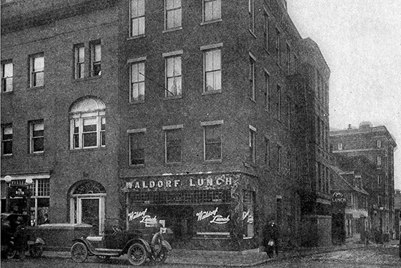 Photo of 1326 Massachusetts Avenue (Harvard Square), Cambridge, Massachusetts, in 1918, showing the Waldorf Lunch restaurant